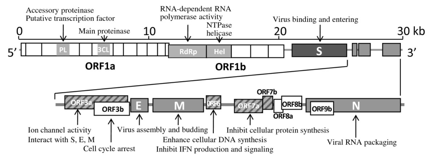 Schematic diagram of the SARS-CoV genome organization and viral proteins. The protein coding regions analyzed in this paper were shaded in grey.